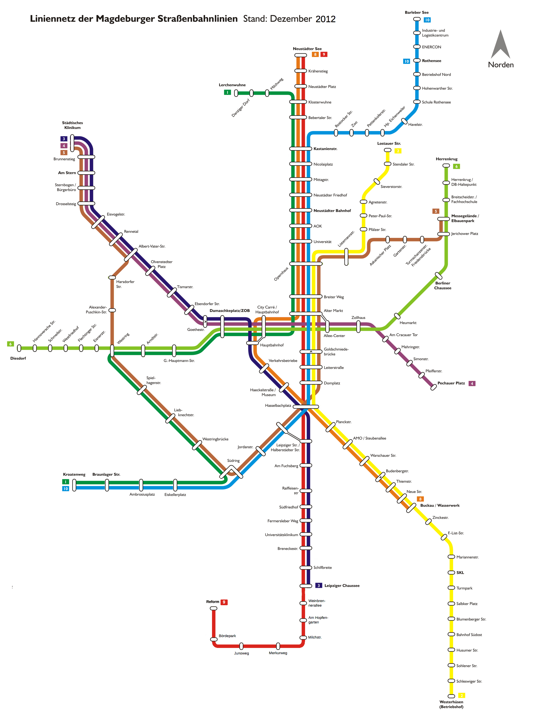 Tram network of Magdeburg